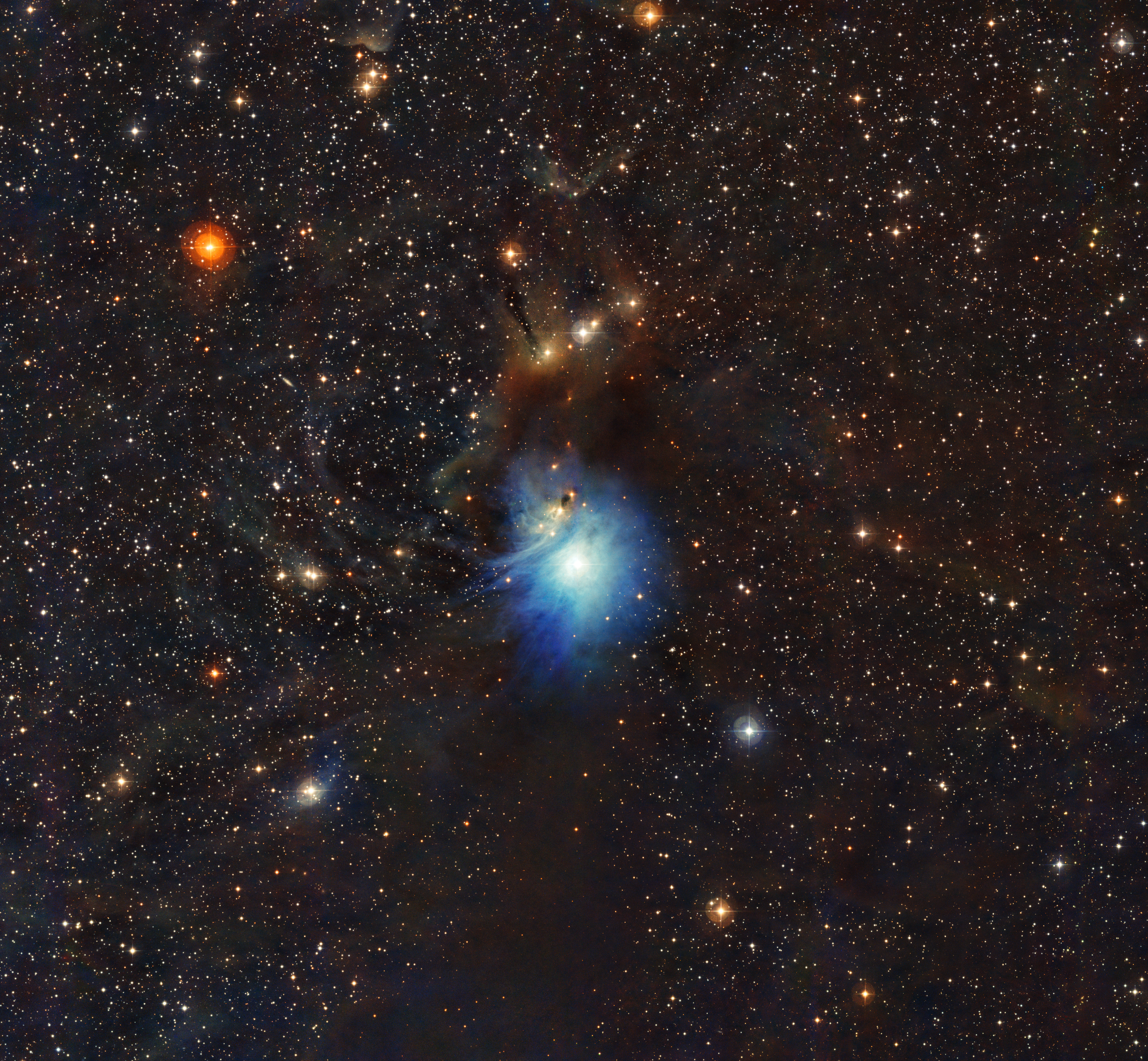 A newly formed star lights up the surrounding cosmic clouds in this image from ESO’s La Silla Observatory in Chile. Dust particles in the vast clouds that surround the star HD 97300 diffuse its light, like a car headlight in enveloping fog, and create the reflection nebula IC 2631. Although HD 97300 is in the spotlight for now, the very dust that makes it so hard to miss heralds the birth of additional, potentially scene-stealing, future stars.